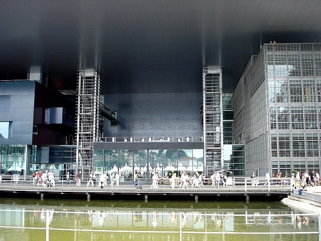 Luzern museum